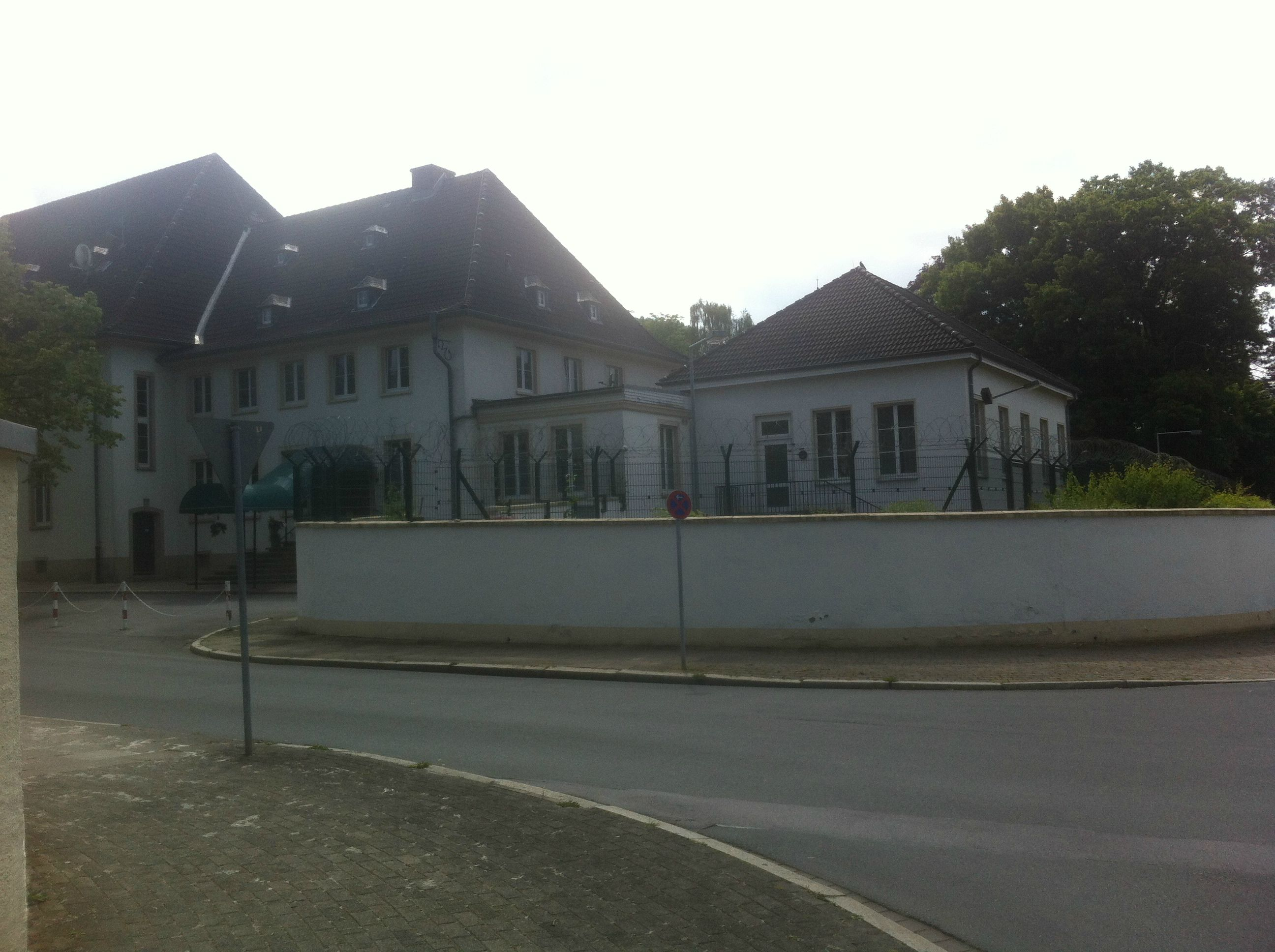 former British barracks in Herford